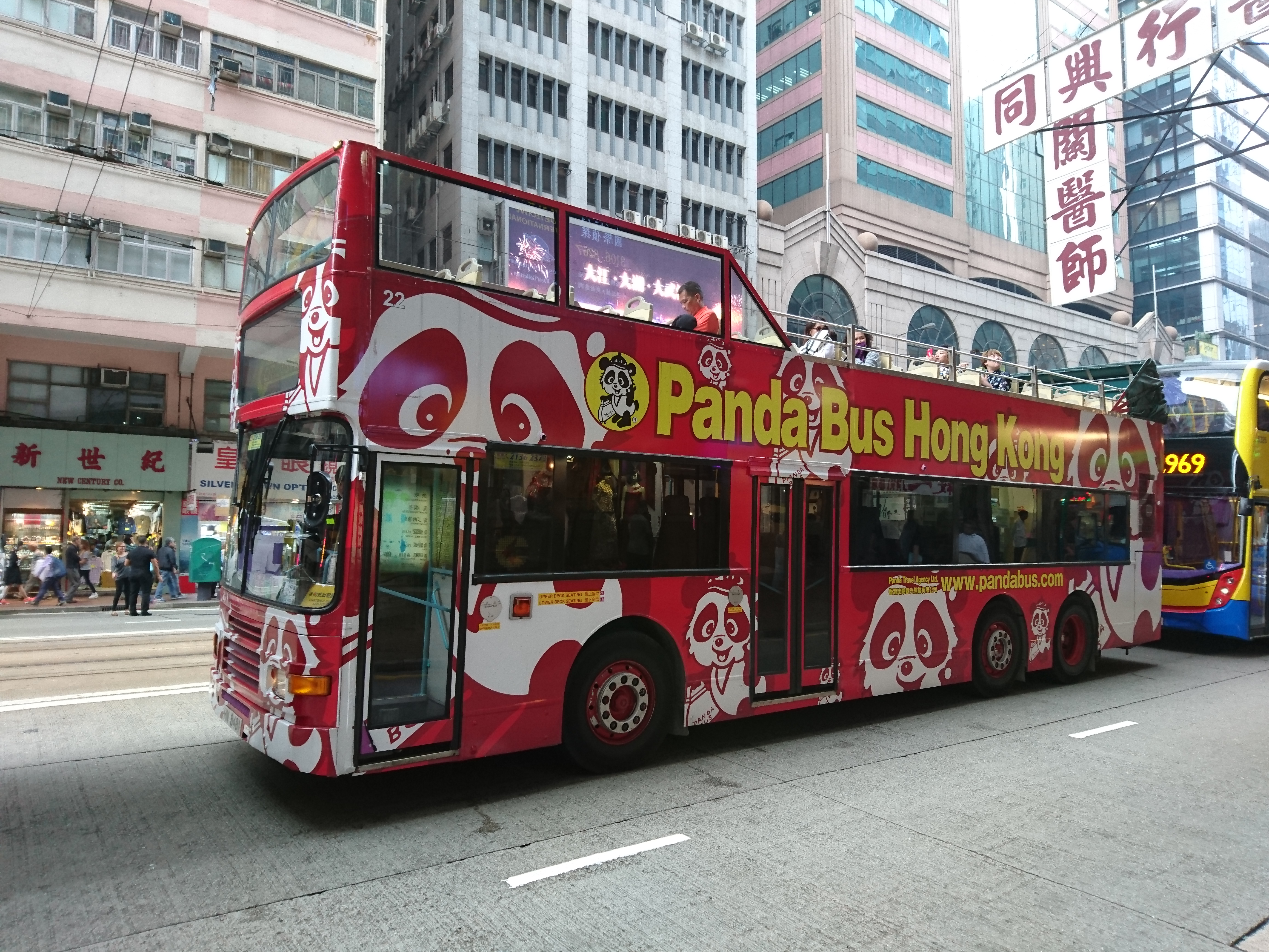 Panda Bus Hong Kong No. 22